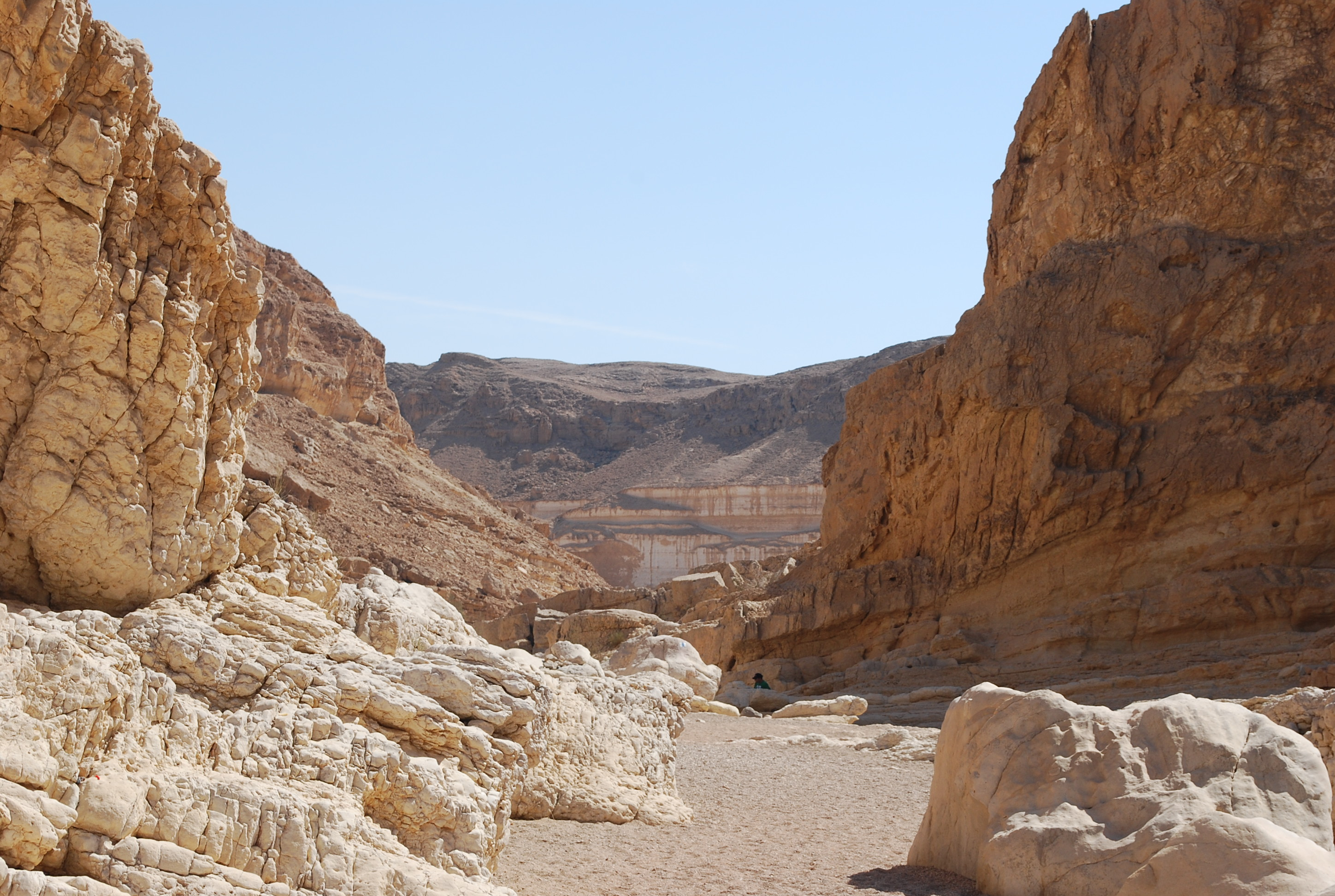 This is from a short hike that we took within the crater Maktesh Ramon, Israel. Mitzpe Ramon